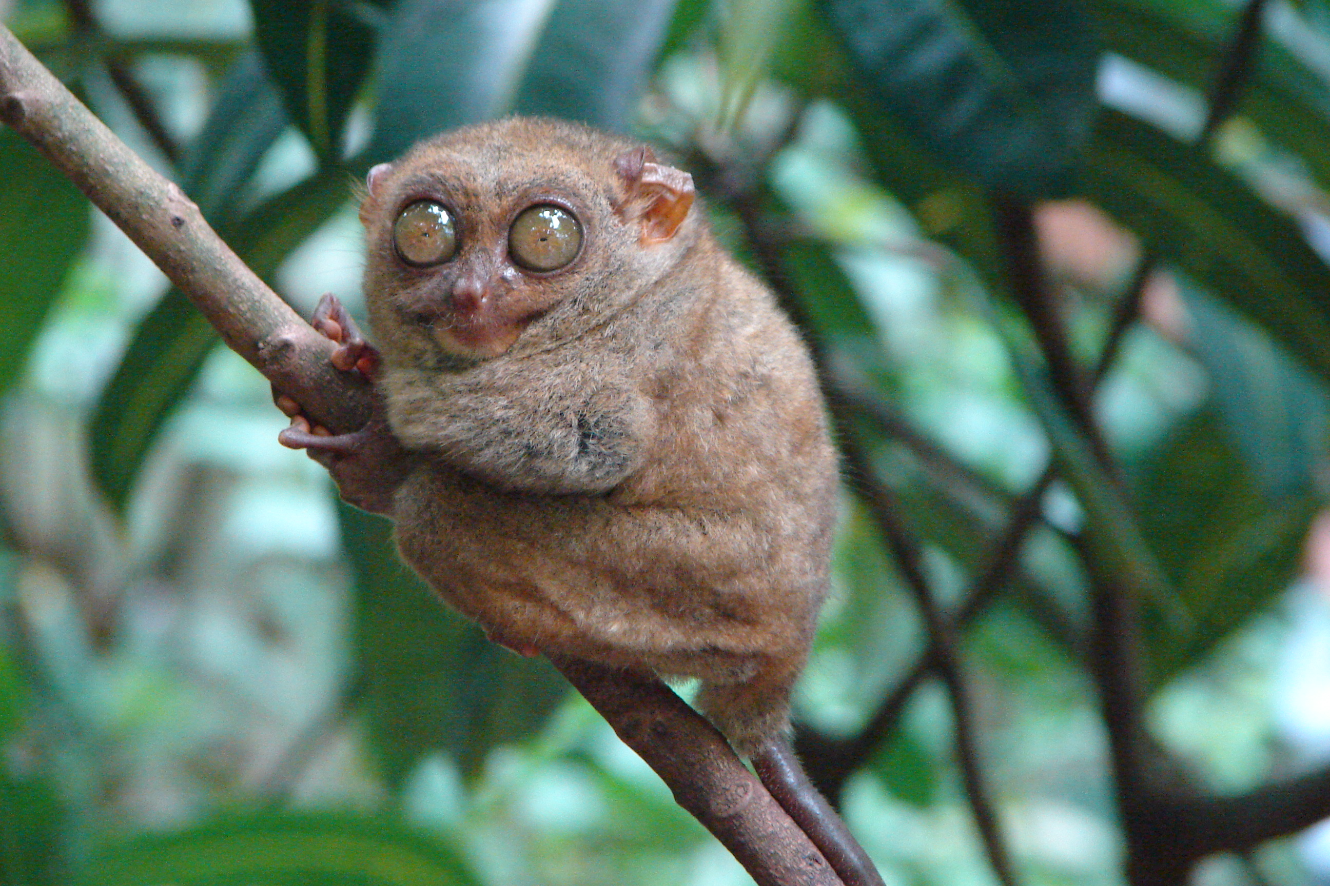 Philippine Tarsier (Carlito syrichta) Bohol, Phillipines Photographer: Plerzelwupp